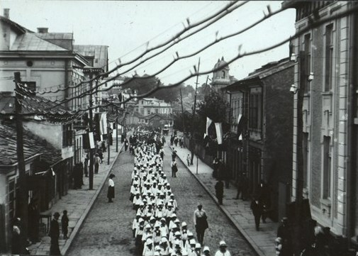 Album with photos of houses, churches, public buildings, industrial enterprises in Gabrovo, Bulgaria.